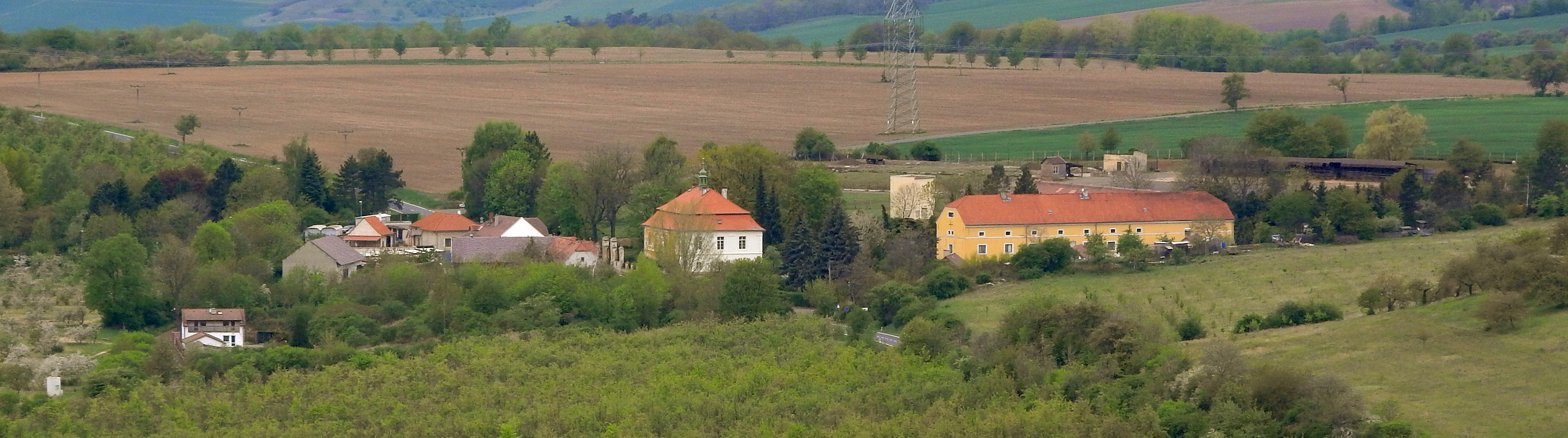 Village Chrámce (okres Most), view from Číčov hill, spring 2020.